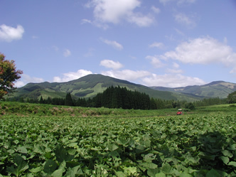 霧島 さつまいも畑